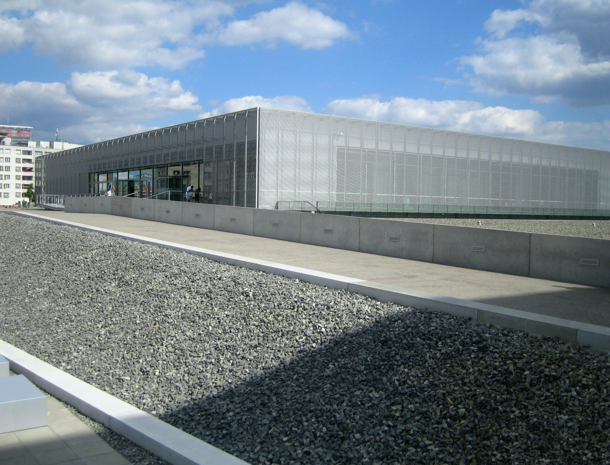 Berlin, Niederkirchnerstraße. Exhibition "Topographie des Terrors" (topography of terror). View to the exhibition-hall.